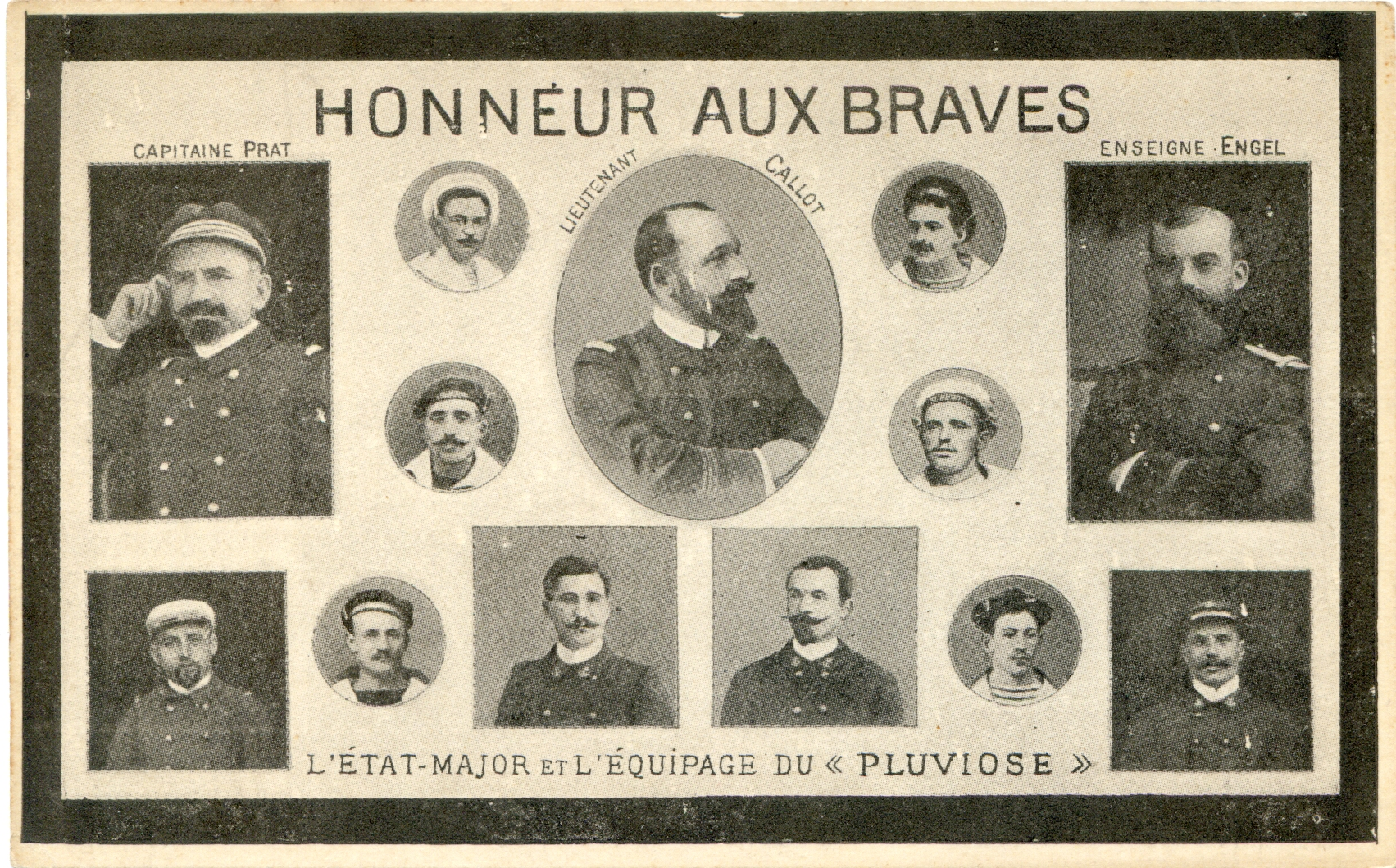 Crew of the submarine Pluviôse, sunk in collision, 26 May 1910.